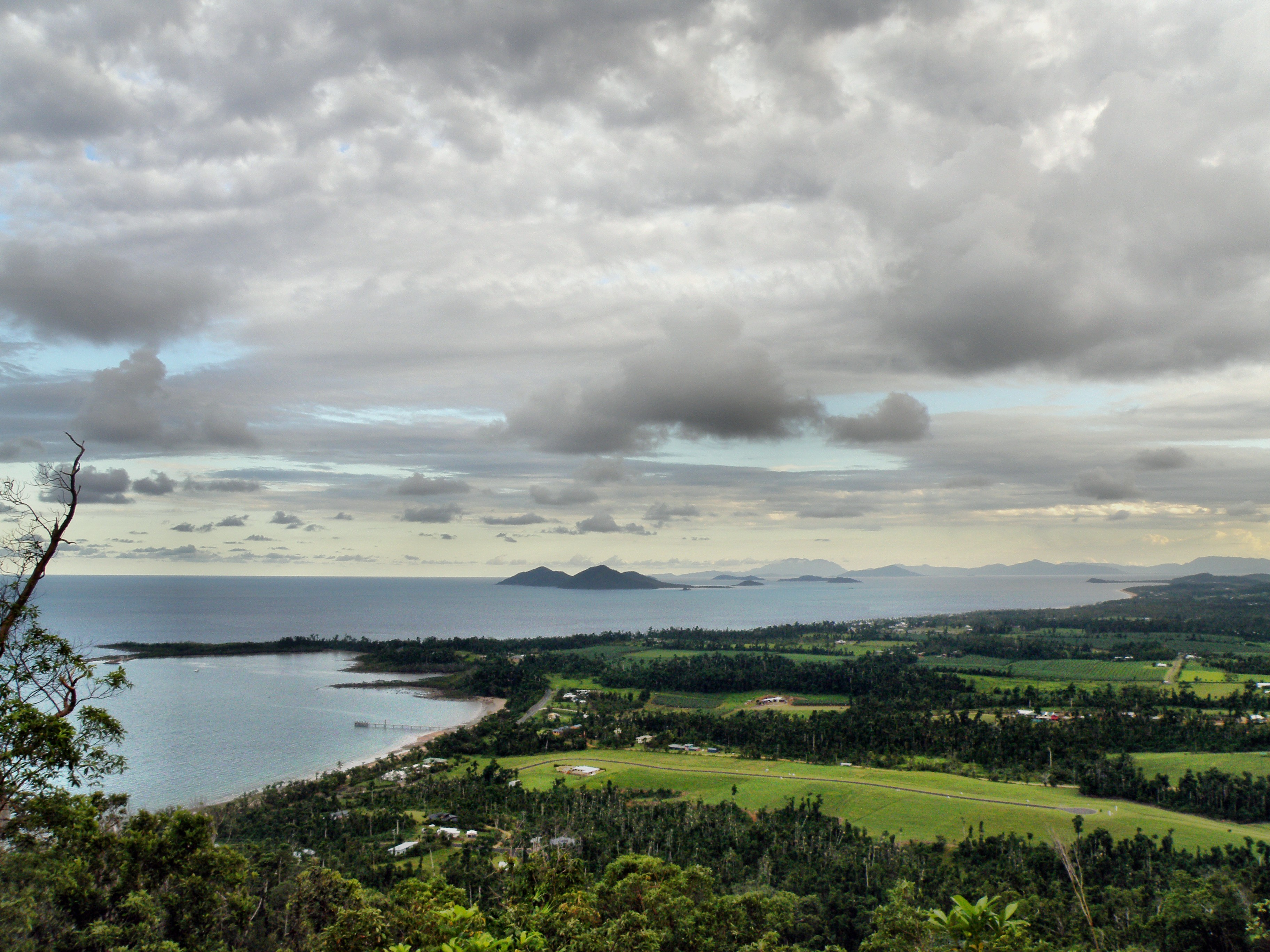 Lookout at the top of the 3km walking trail winding up the slopes of Bicton Hill just north of Mission Beach.